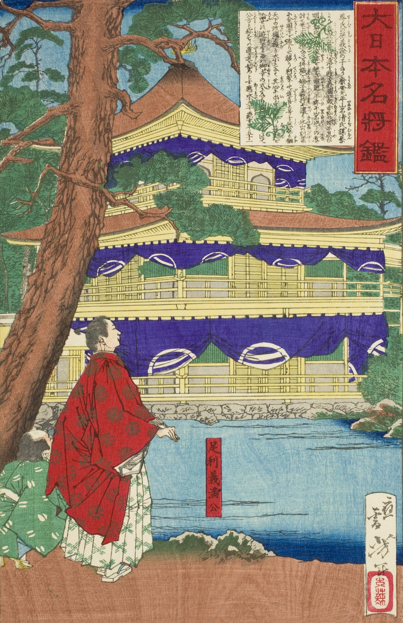 1879 Series: A Mirror of Famous Generals of Japan Prints; woodcuts Color woodblock print Gift of Arthur and Fran Sherwood (M.2007.152.67) Japanese Art